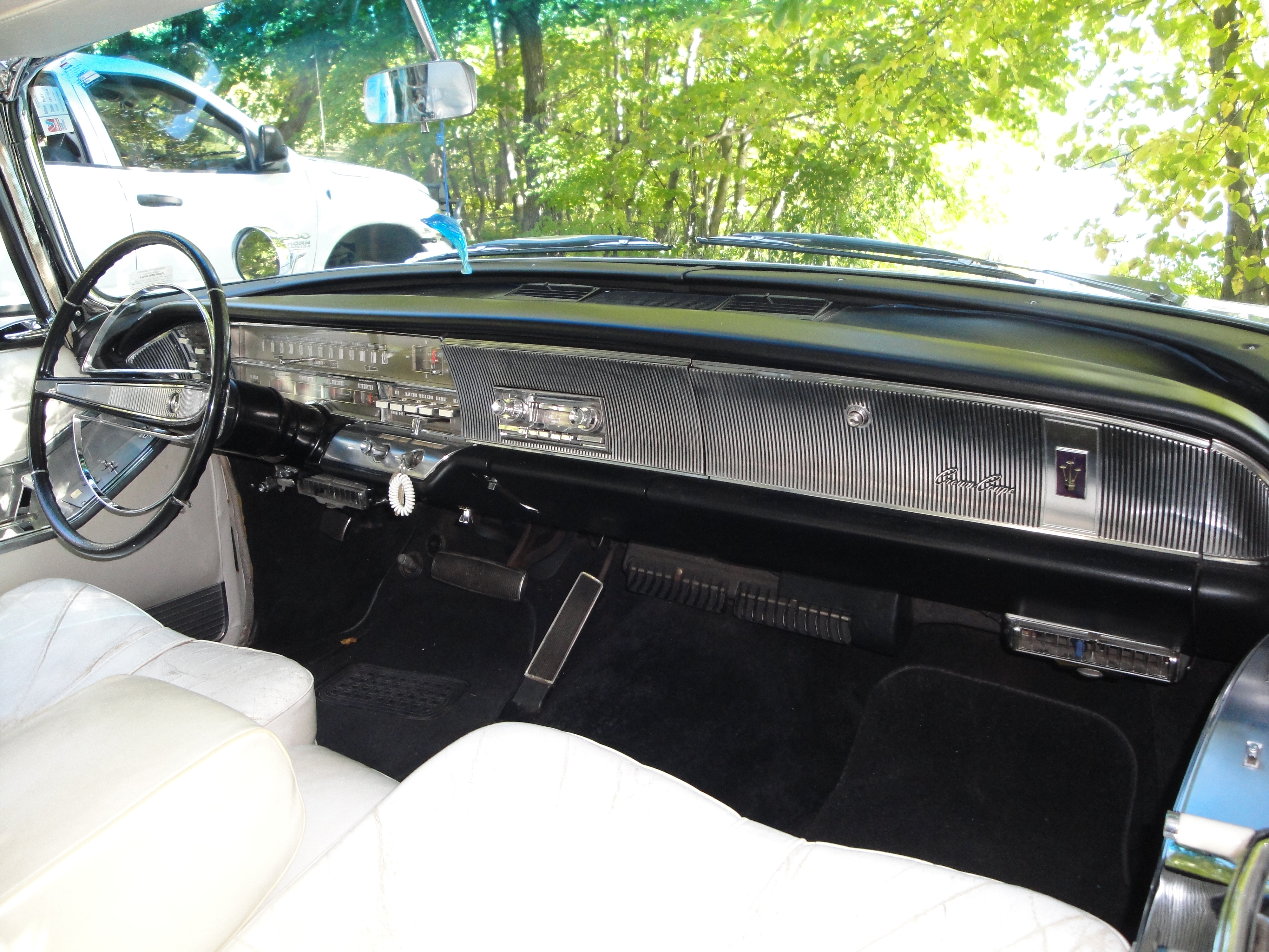 1964 Imperial sales presentation filmstrip on YouTube